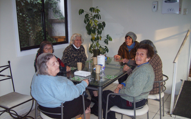 Fotografia de un hogar de ancianos en chile